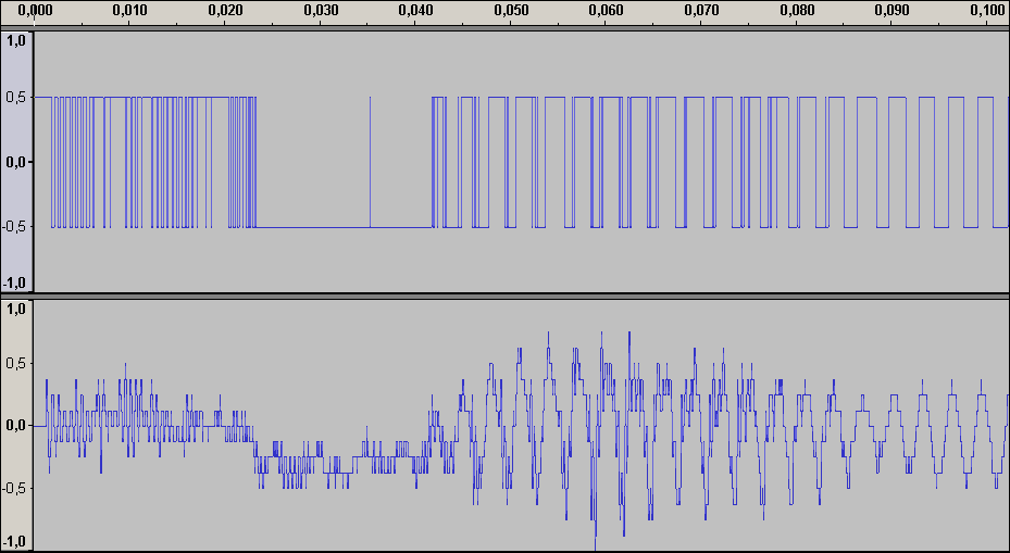 Quantisation noise. Waveform of sound, amplitude quantisized. Upper diagram: one bit = 2 values. Lower diagram: 4 bits = 16 values. Preparation of data and screendump: Anton (2006) (thanks to Audacity for painting). related files: image:amplecartia.ogg image:ampl4rp.ogg image:ampl2rp.ogg image:ampl1rp.ogg